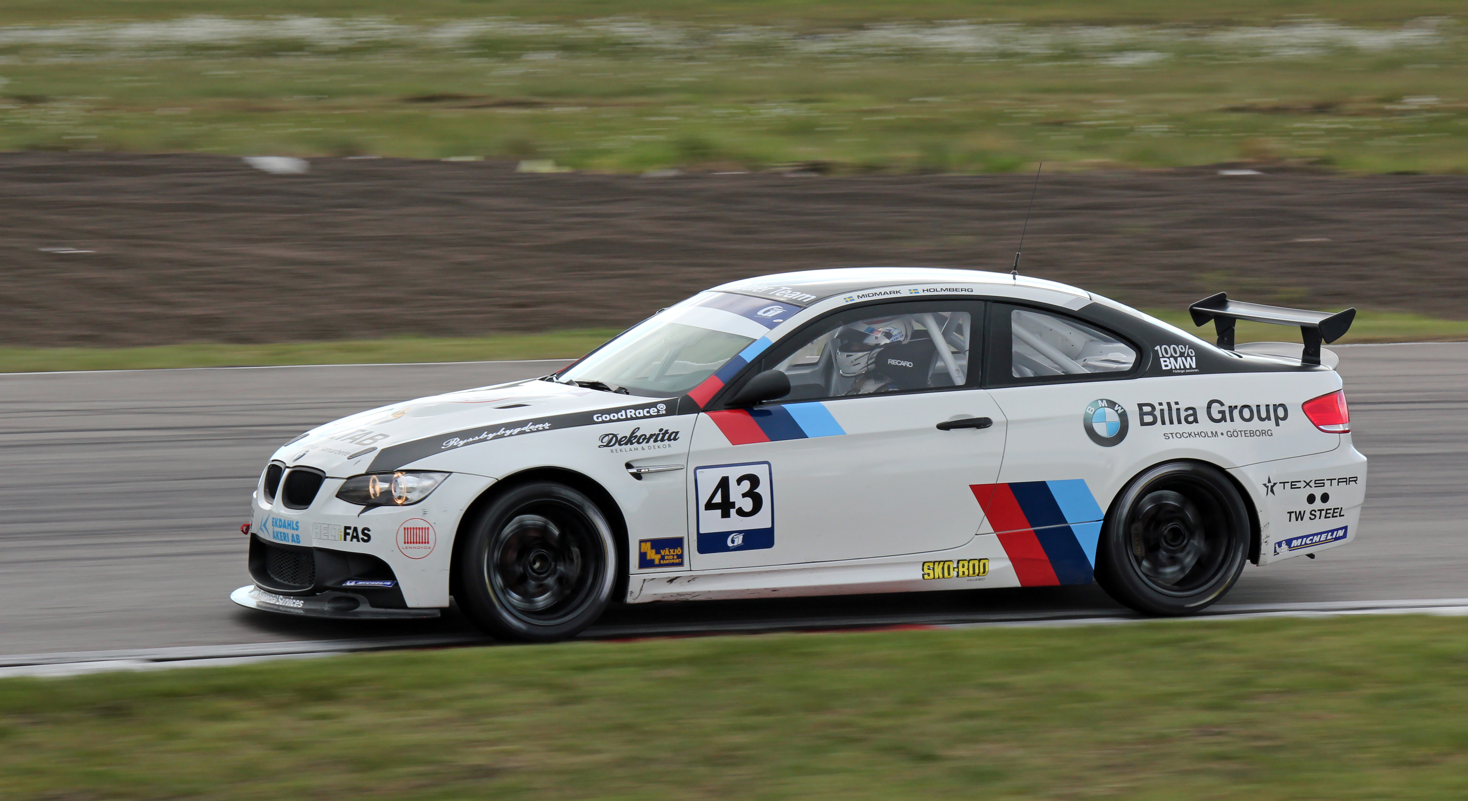 Chris Midmark in a BMW M3 GT4 in Swedish GT Series at Anderstorp Raceway in 2012. His team mate was Anders Holmberg.